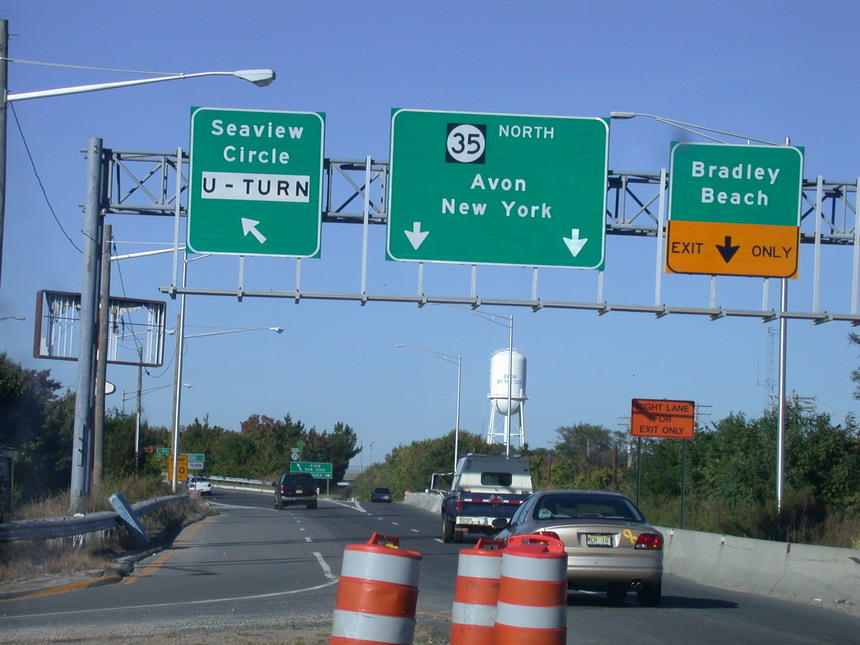 Route 35 just north of the Belmar Bridge (note New York as the control city)